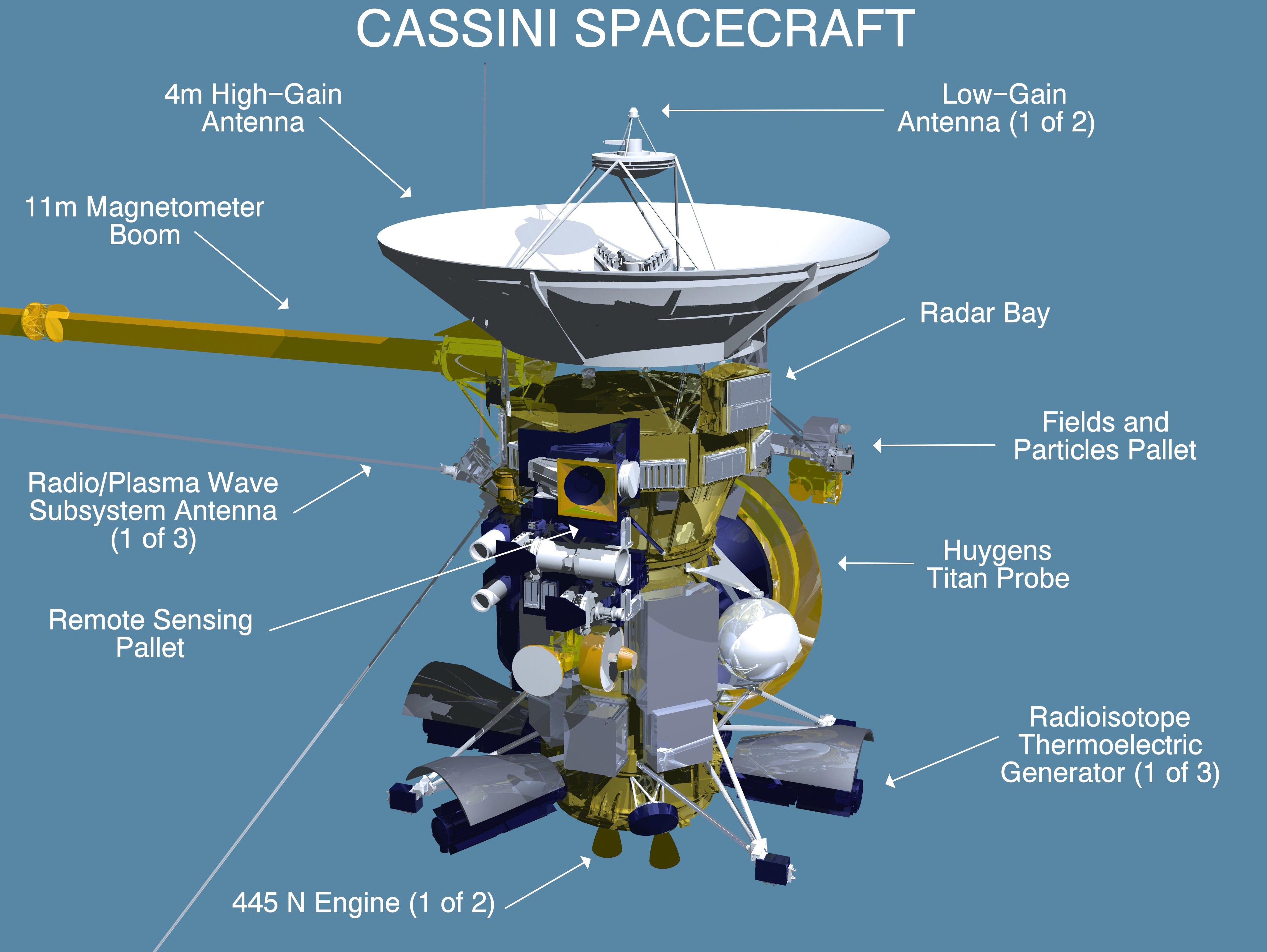 Diagram of the Cassini Spacecraft